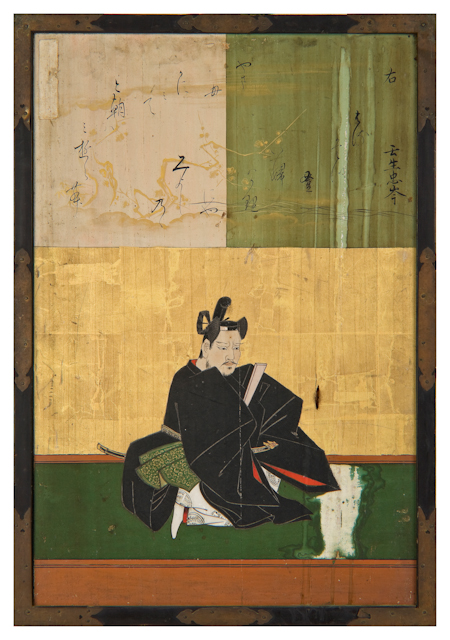 Sanjūrokkasen-gaku (Thirty-six Poetry Immortals framed picture) #27: Mibu no Tadamine